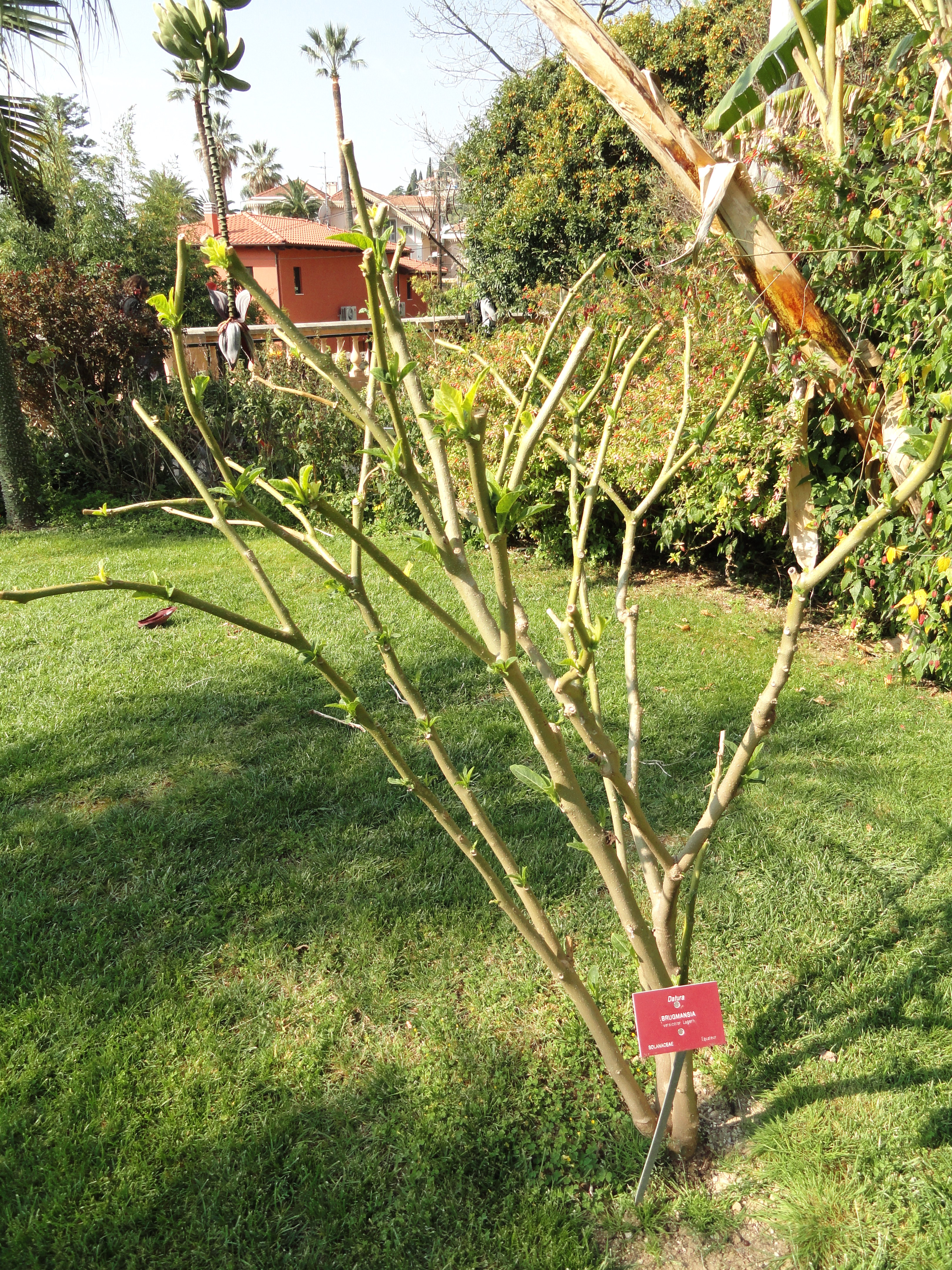 Brugmansia versicolor specimen in the Jardin botanique du Val Rahmeh, Menton, Alpes-Maritimes, France.